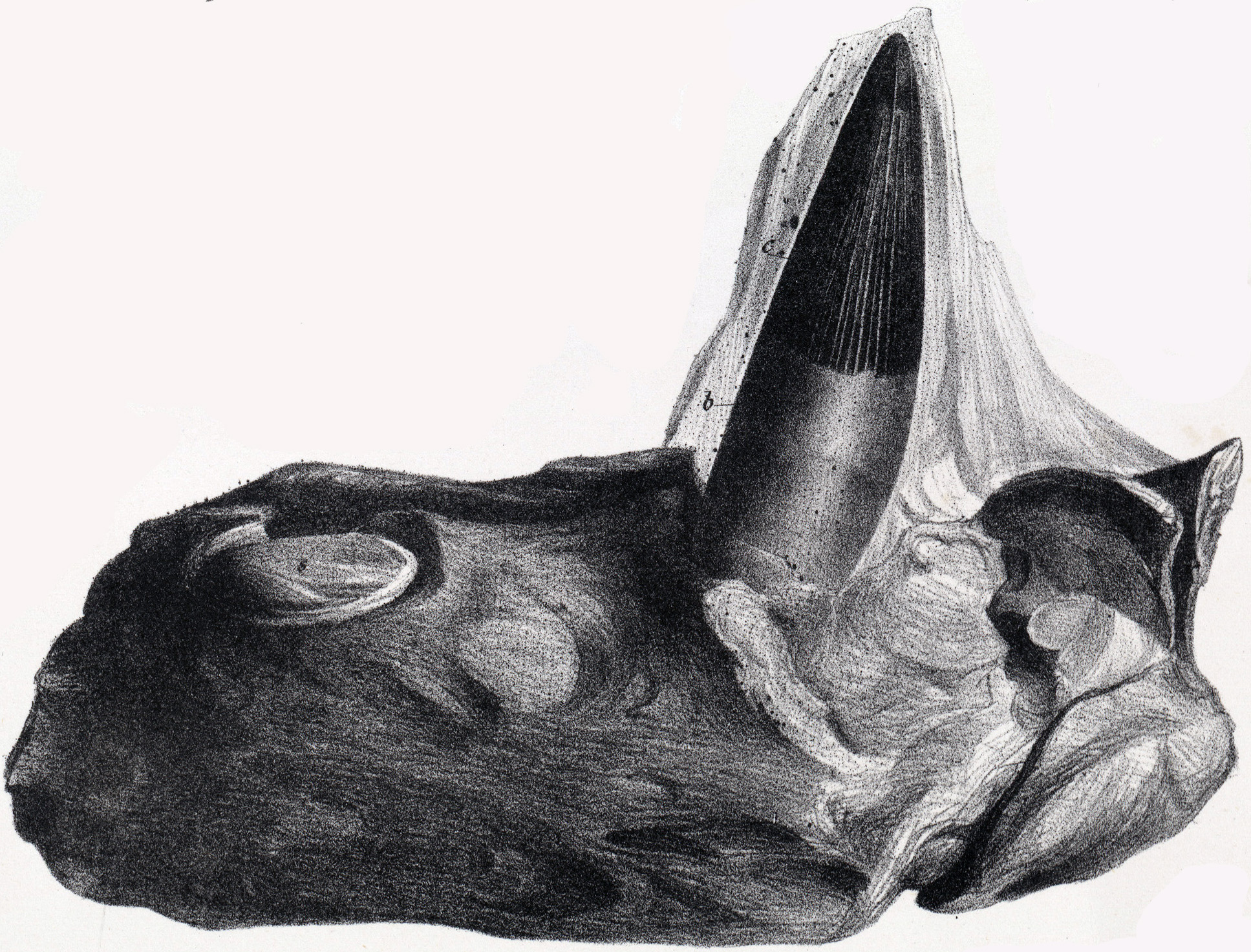 Portion of the lower jaw, with a tooth in situ, of Polyptychodon interruptus. From the Chalk of Kent. In the Collection of Mrs. Smith, of Tonbridge Wells.